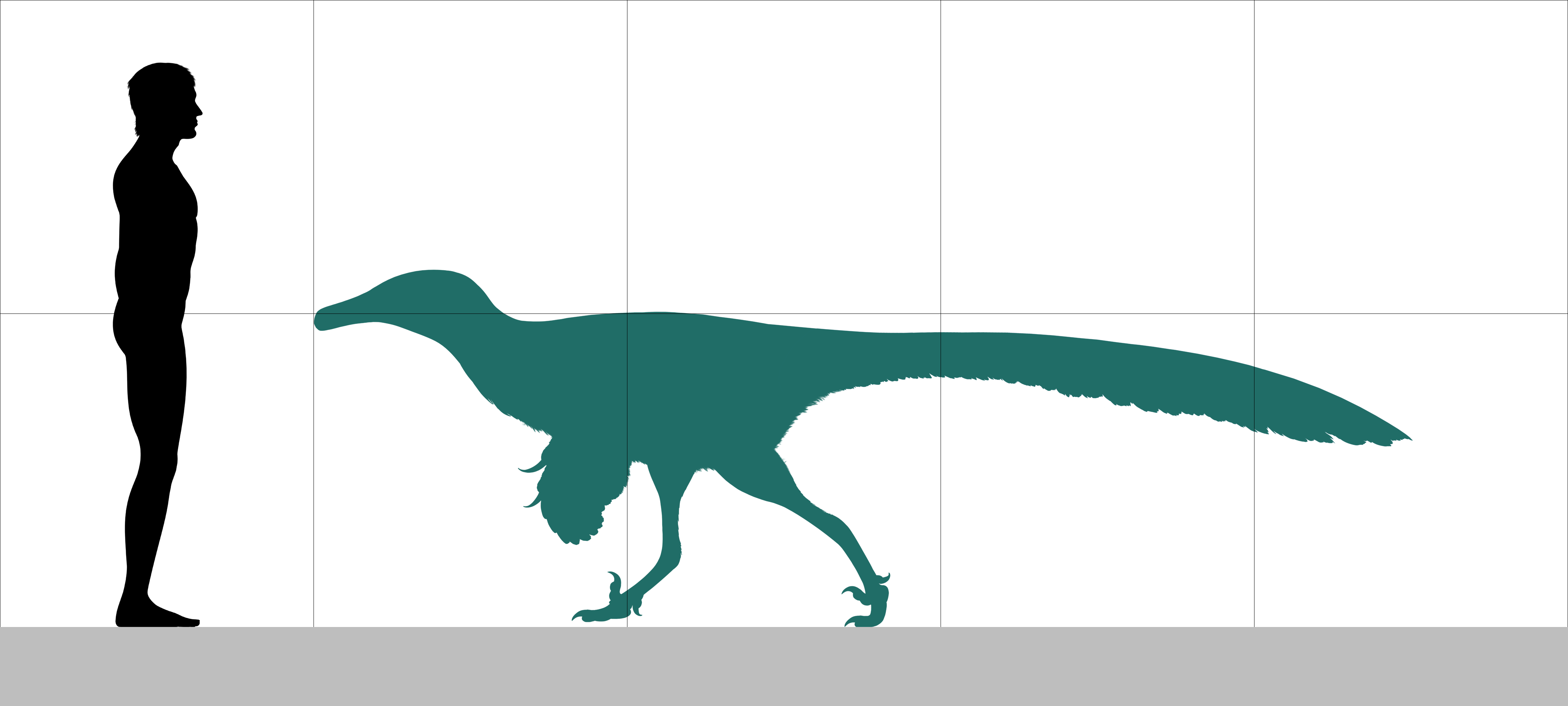 Size comparison between the dromaeosaurid Unenlagia and a 1.8 m tall man. Estimates have varied between lengths of 2.3 m (7.5 ft)[1] and 2 m (6.6 ft).[2] However, Gregory S. Paul has estimated Unenlagia at 3.5 m (11 ft).[3] _________________________________________________________________________________________________________________________________